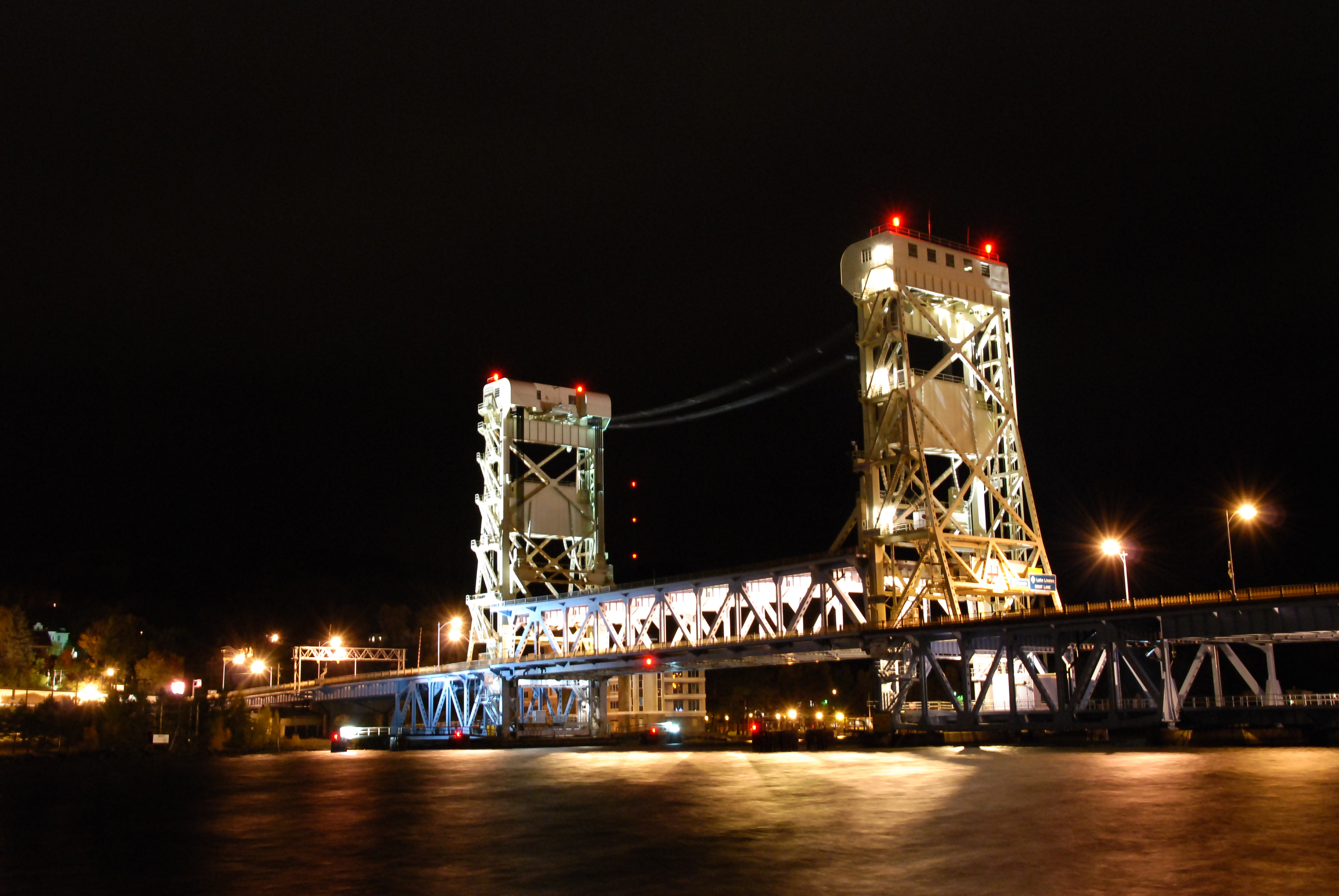 Portage Lake Lift Bridge that connects the cities of Hancock and Houghton, Michigan, United States.